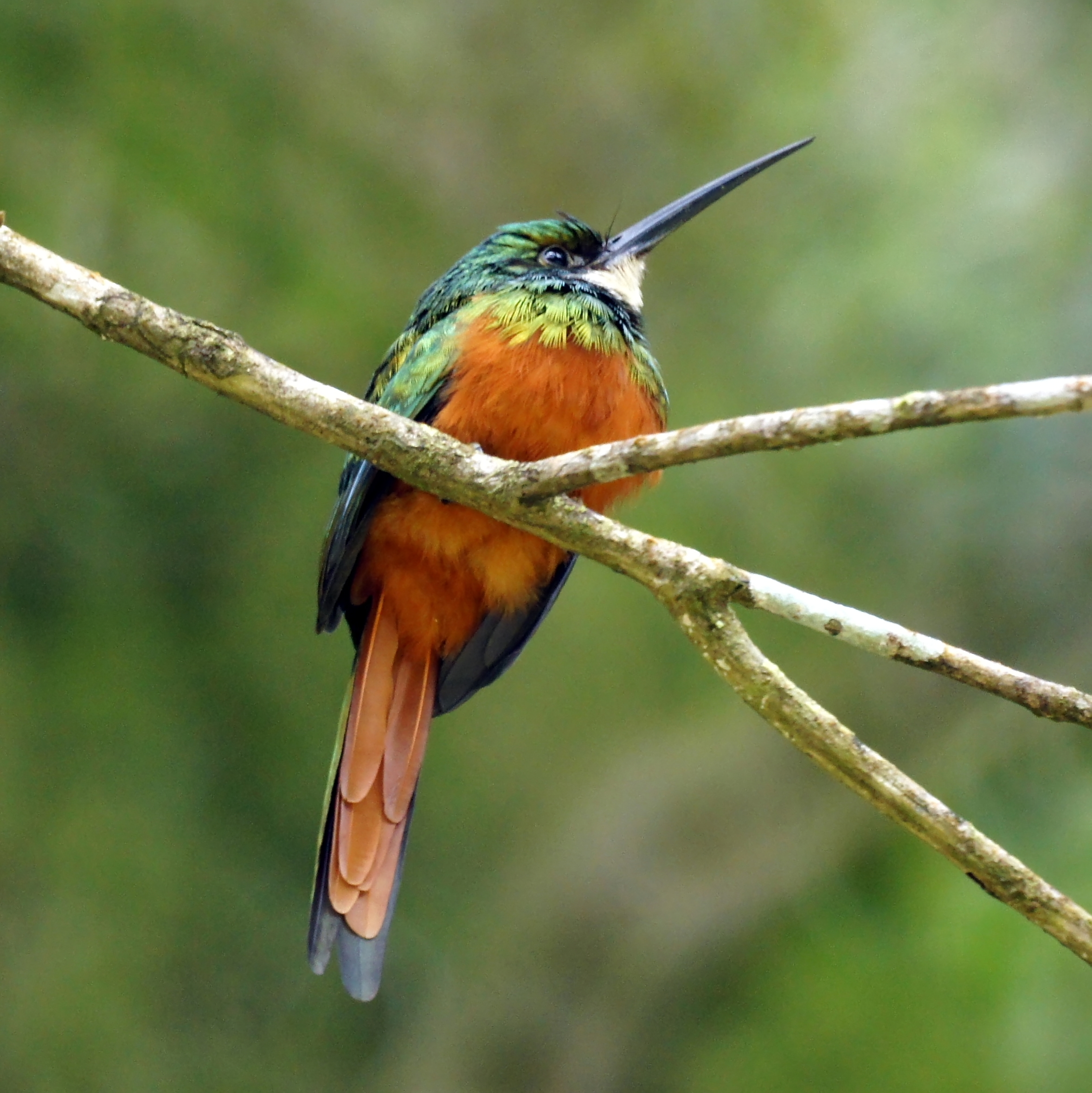 Rufous-tailed Jacamar (Galbula ruficauda)